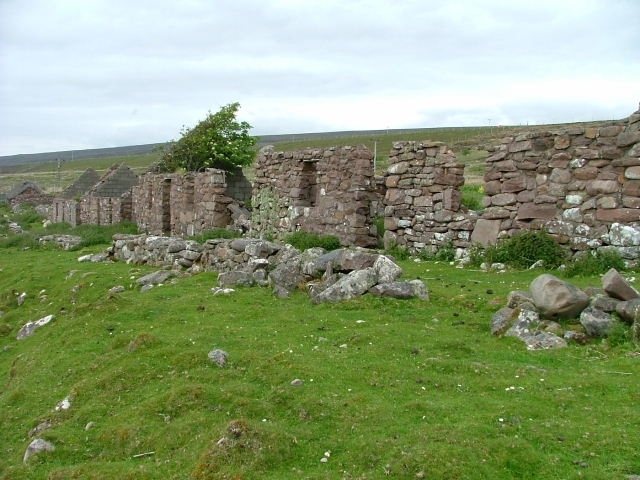 Lonbain Ruined Village. Evidence of the infamous Highland Clearances.